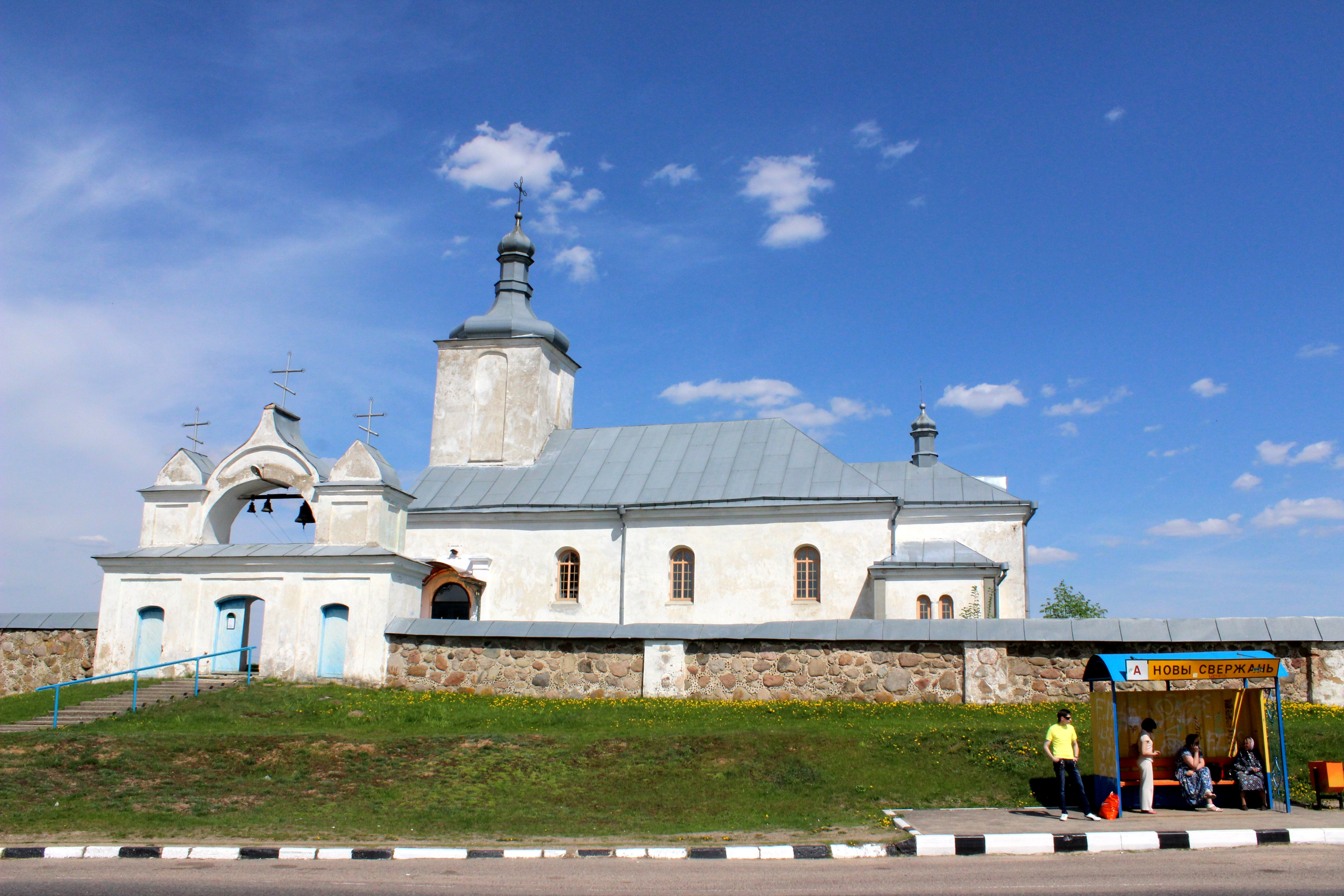 Village Novy Sverzhan, Stowbtsy Raion, Minsk Region. Assumption Church